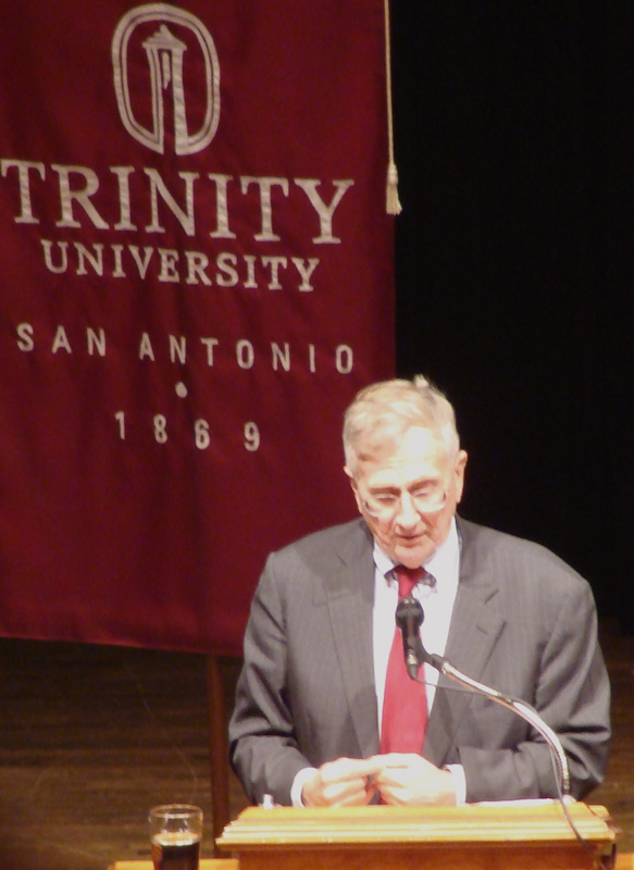 Seymour Hersh, at Trinity University, San Antonio, Texas